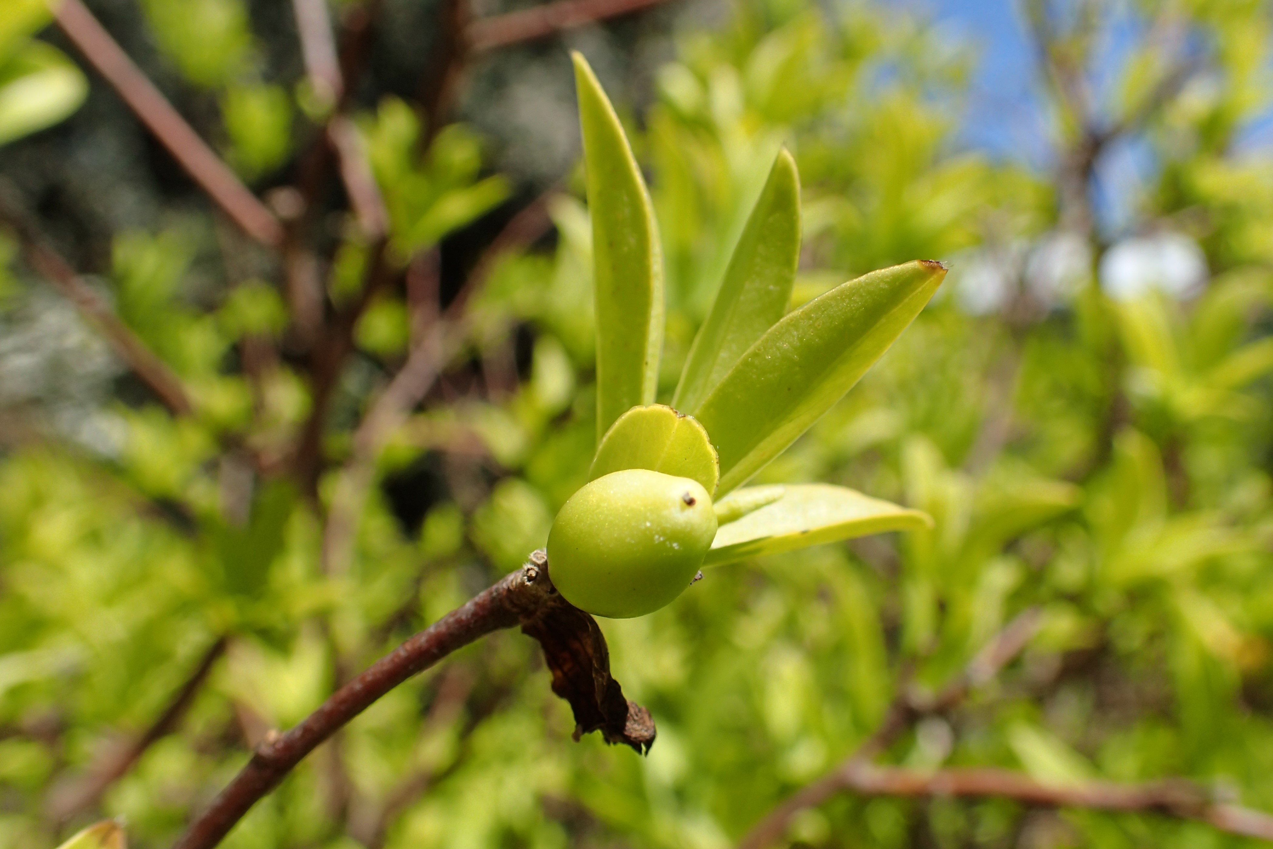 Daphne oleoides in Dunedin Botanic Garden